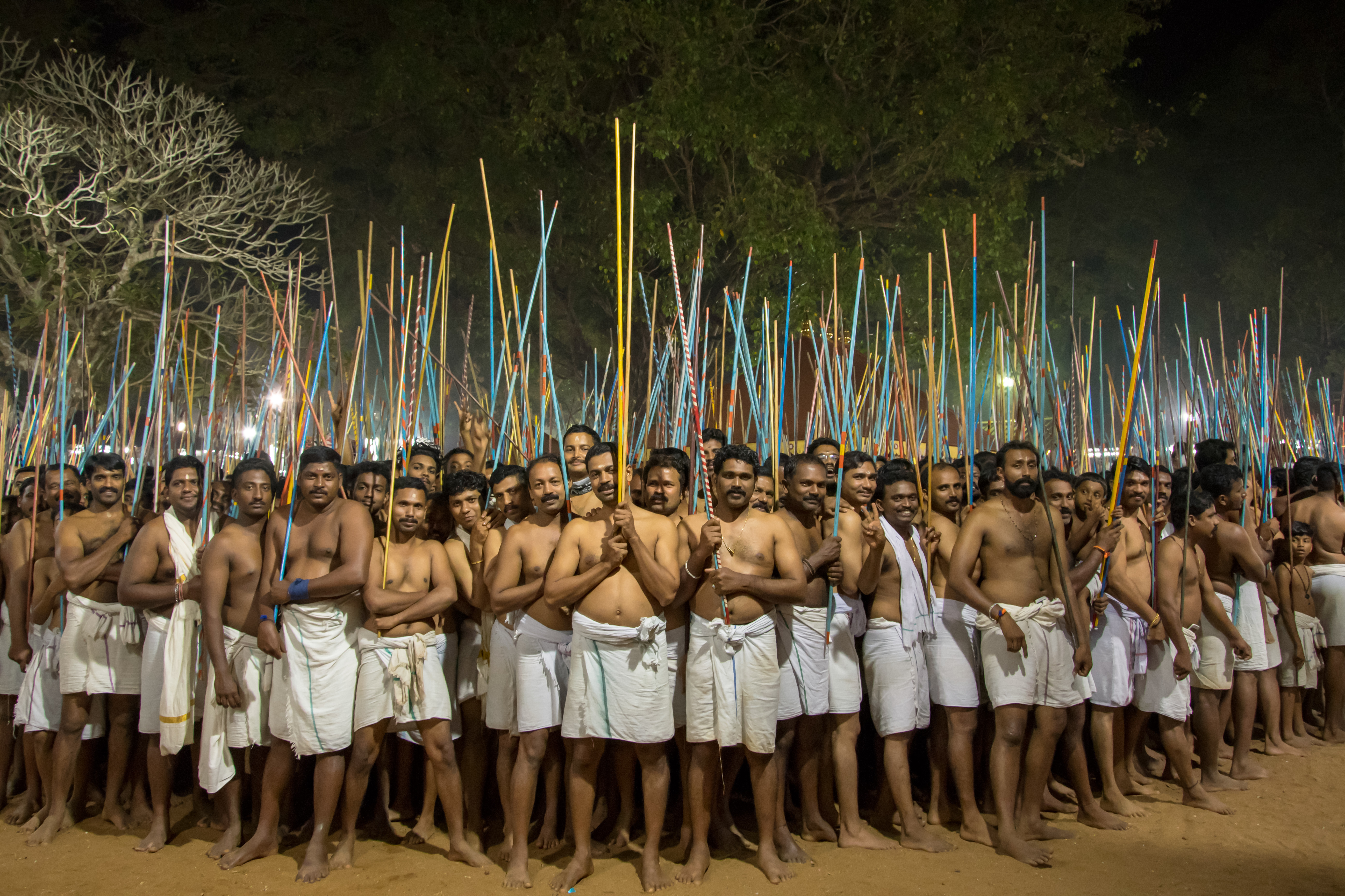 Theyyam is a ritual art form performed in temples of northern Kerala, India.